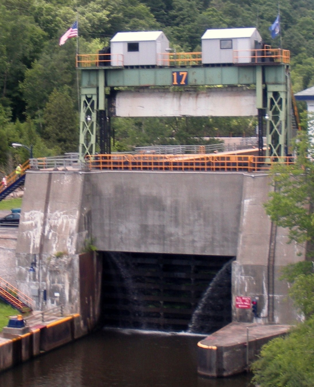 Lock 17 with gullotine gate on Erie Canal